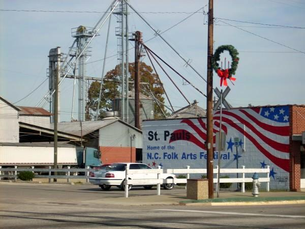 Another view of Broad Street in St. Pauls